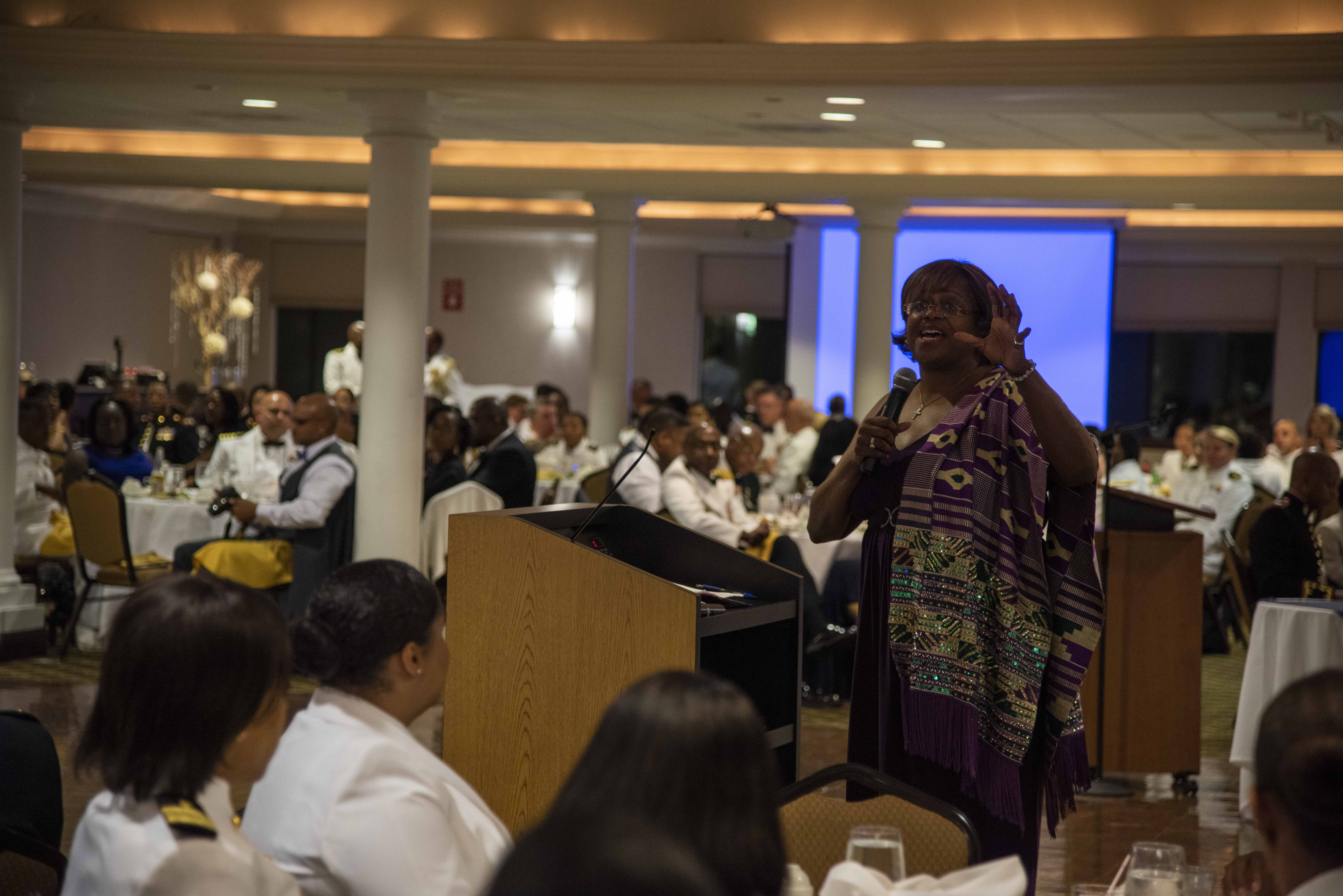 Dr. Suzan Johnson Cook, addresses guests during the 47th annual National Naval Officers Association (NNOA) symposium banquet at Admiral Kidd Catering and Conference Center in San Diego, Aug. 7. Founded in 1972, the NNOA is an advocacy organization of active duty, reserve and retired officers, midshipmen and cadets, and interested civilians of all ranks and ethnic groups working together to promote leadership and career development, junior officer mentoring, and professional networking. (U.S. Navy photo by Mass Communication Specialist 2nd Class Michael H. Lee/RELEASED)